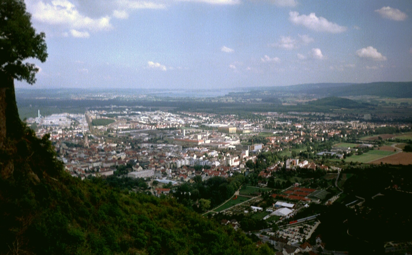 Singen seen from the Hohentwiel